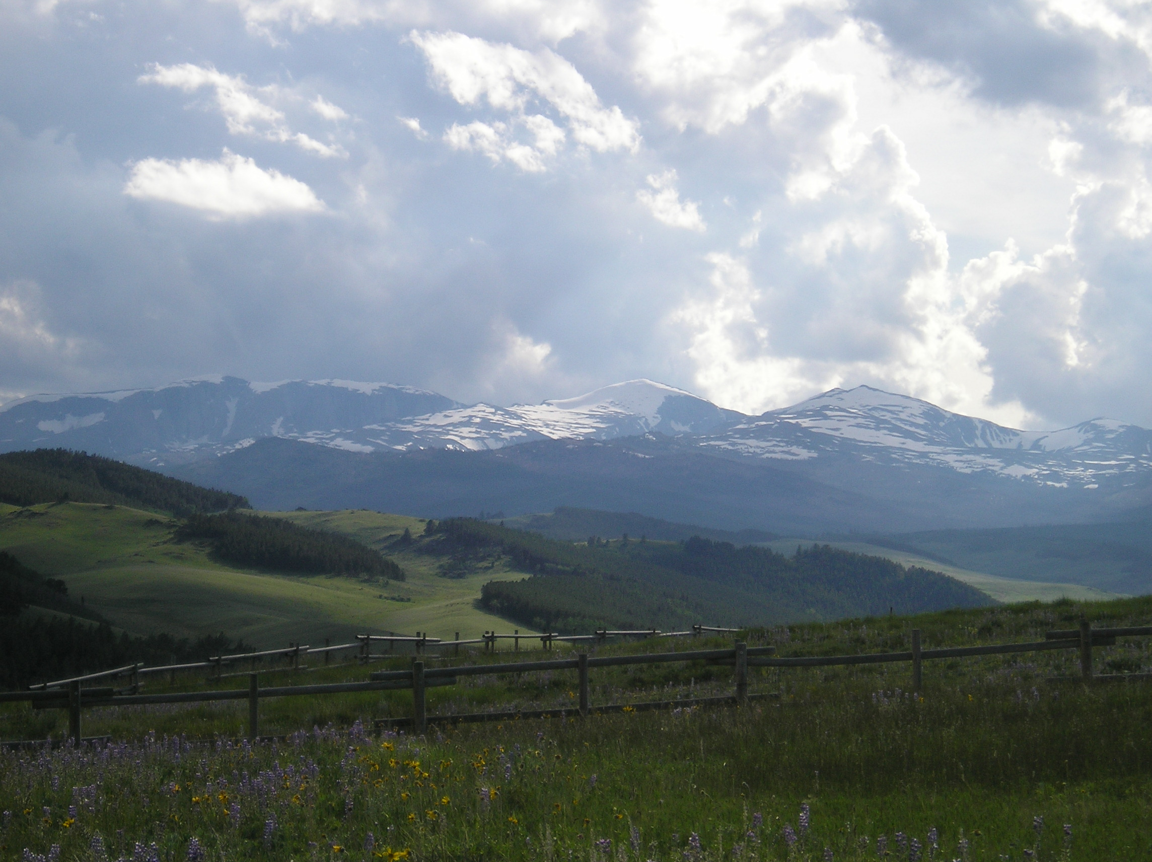 The gorgeous Bighorn Mountains of Wyoming